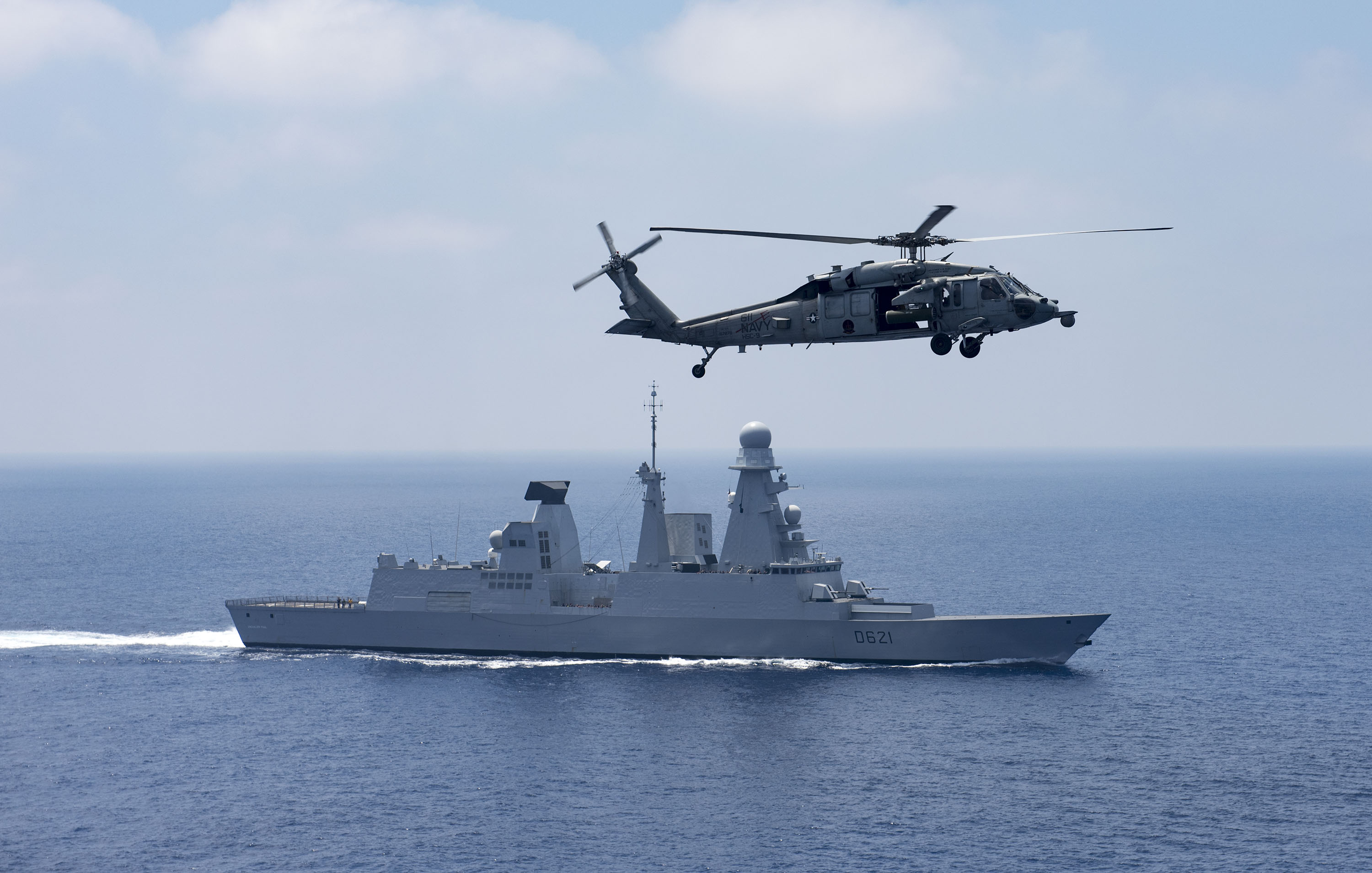 A U.S. Navy Sikorsky MH-60S Seahawk (BuNo 167876) from Helicopter Sea Combat Squadron 9 (HSC-9) "Tridents" flies past the French Marine Nationale guided missile destroyer Chevalier Paul (D621) in the Mediterranean Sea on 15 July 2017. HSC-9 was assigned to Carrier Air Wing 8 (CVW-8) aboard the the aircraft carrier USS George H.W. Bush (CVN-77) for a deployment to the U.S. 5th and 6th Fleet areas of operations in 2017.